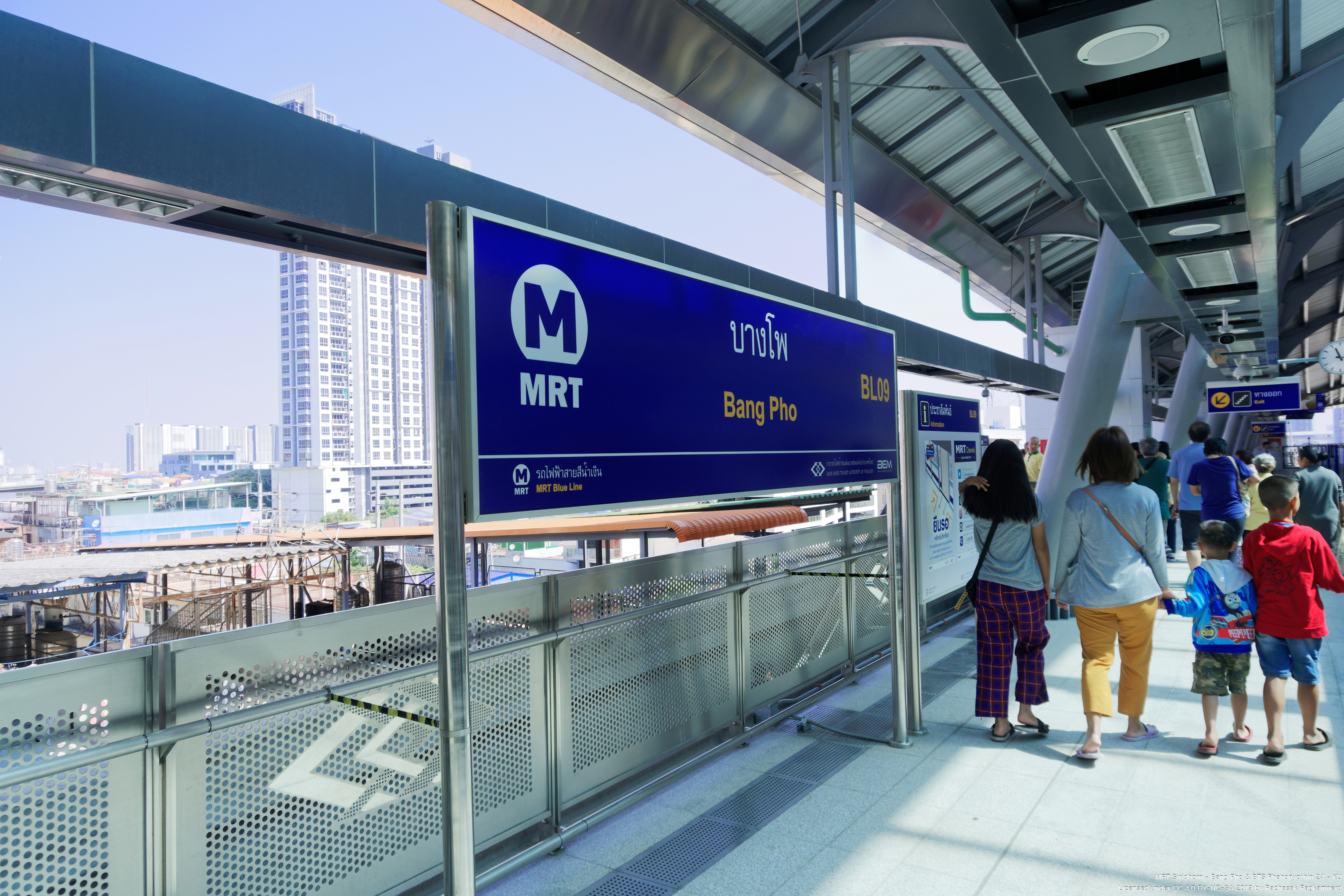 MRT Bang Pho - Traditional station sign